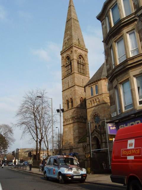 Oran Mor restaurant and pub, 731 Great Western Road, Glasgow, at the junction with Byres Road. The building was completed in 1863 as Kelvinside parish church, and later was a Bible training institute.